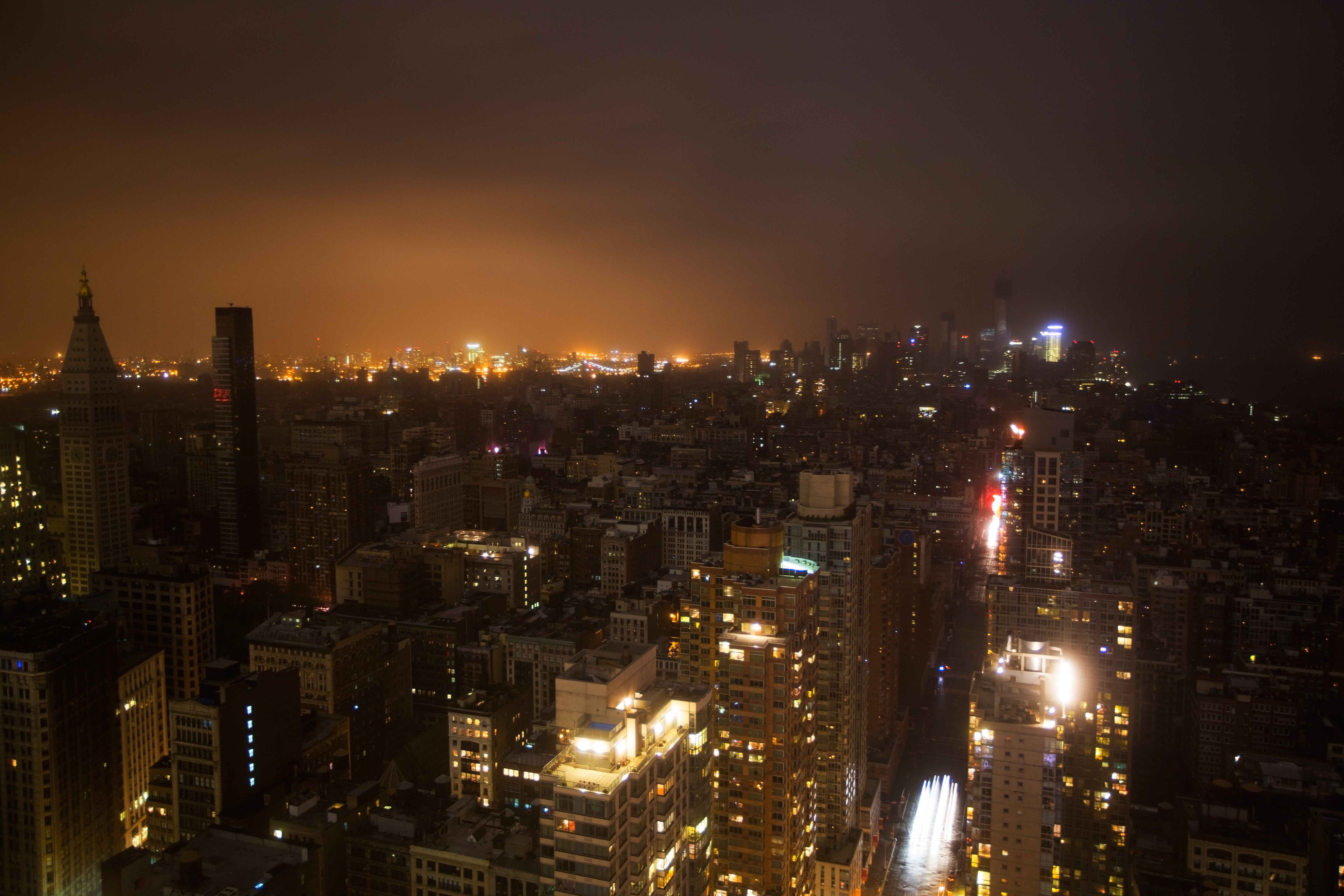 citywide poweroutage caused by Hurricane Sandy